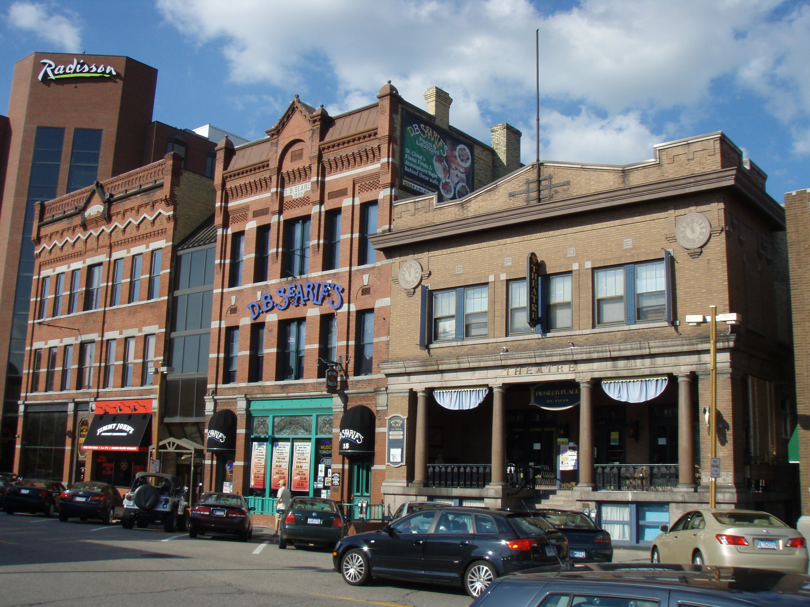 Fifth Avenue Commercial Buildings in St. Cloud, Minnesota, listed on the National Register of Historic Places.